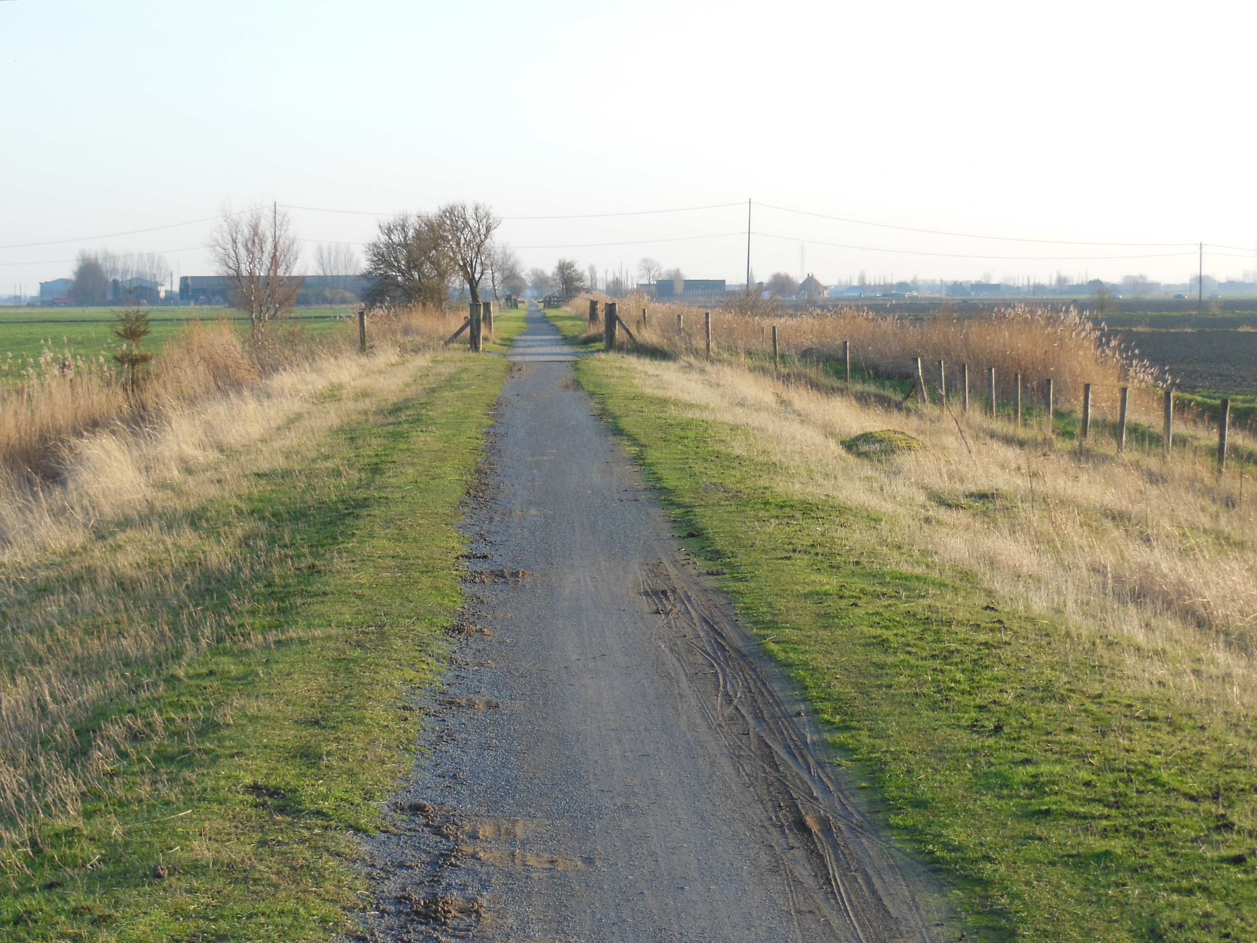 “Line 74 (Infrabel)”, connecting Kaaskerke (Diksmuide) with Nieuwpoort-Bad and also called "Frontzate" played an important role during World War One The former railway track is now a cycling way.